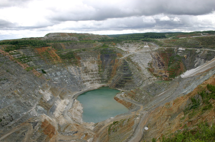 Verkhny Ufaley - Landscape remains from overcast coal mining.